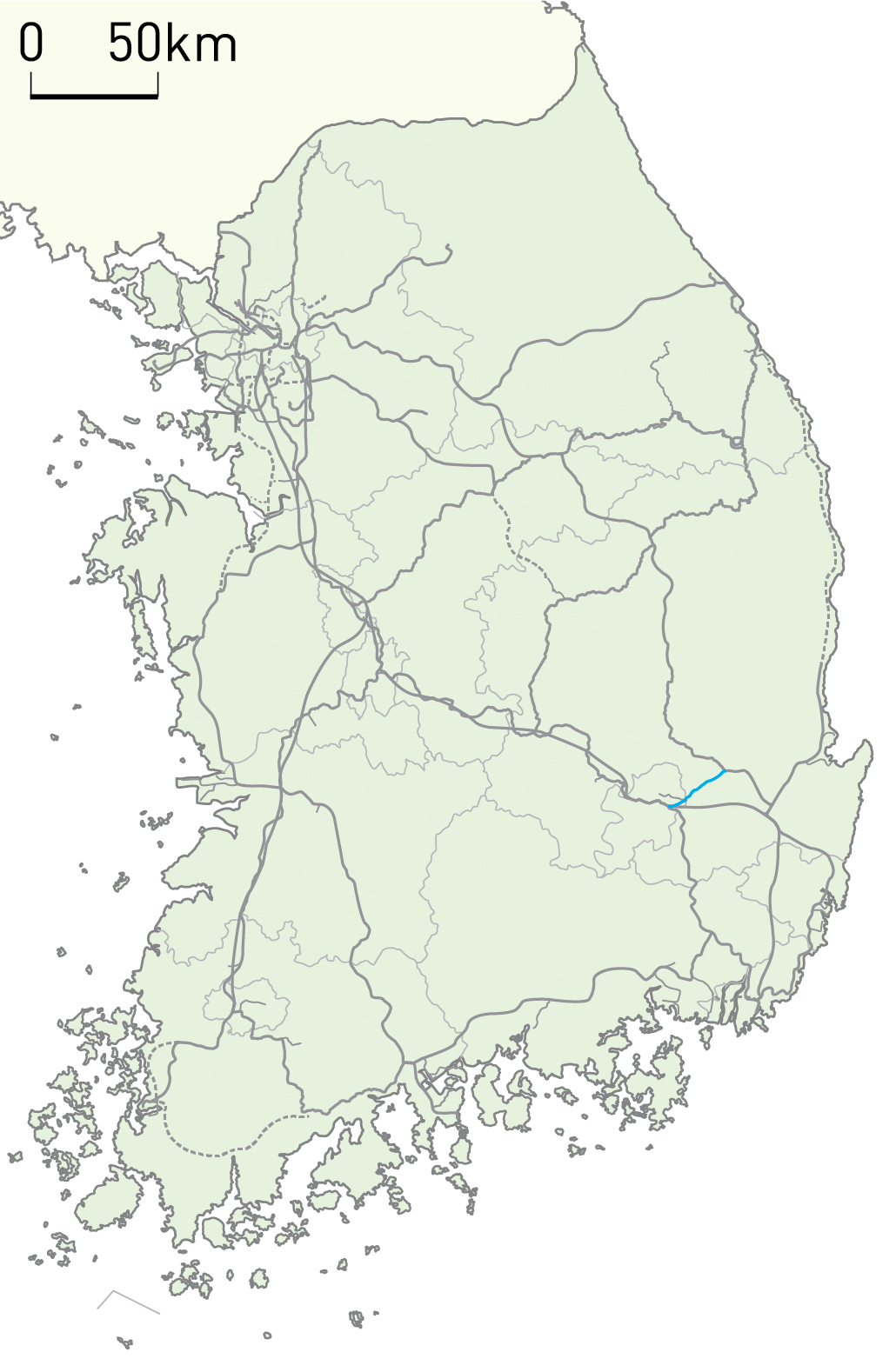 Korail Daegu Line route map